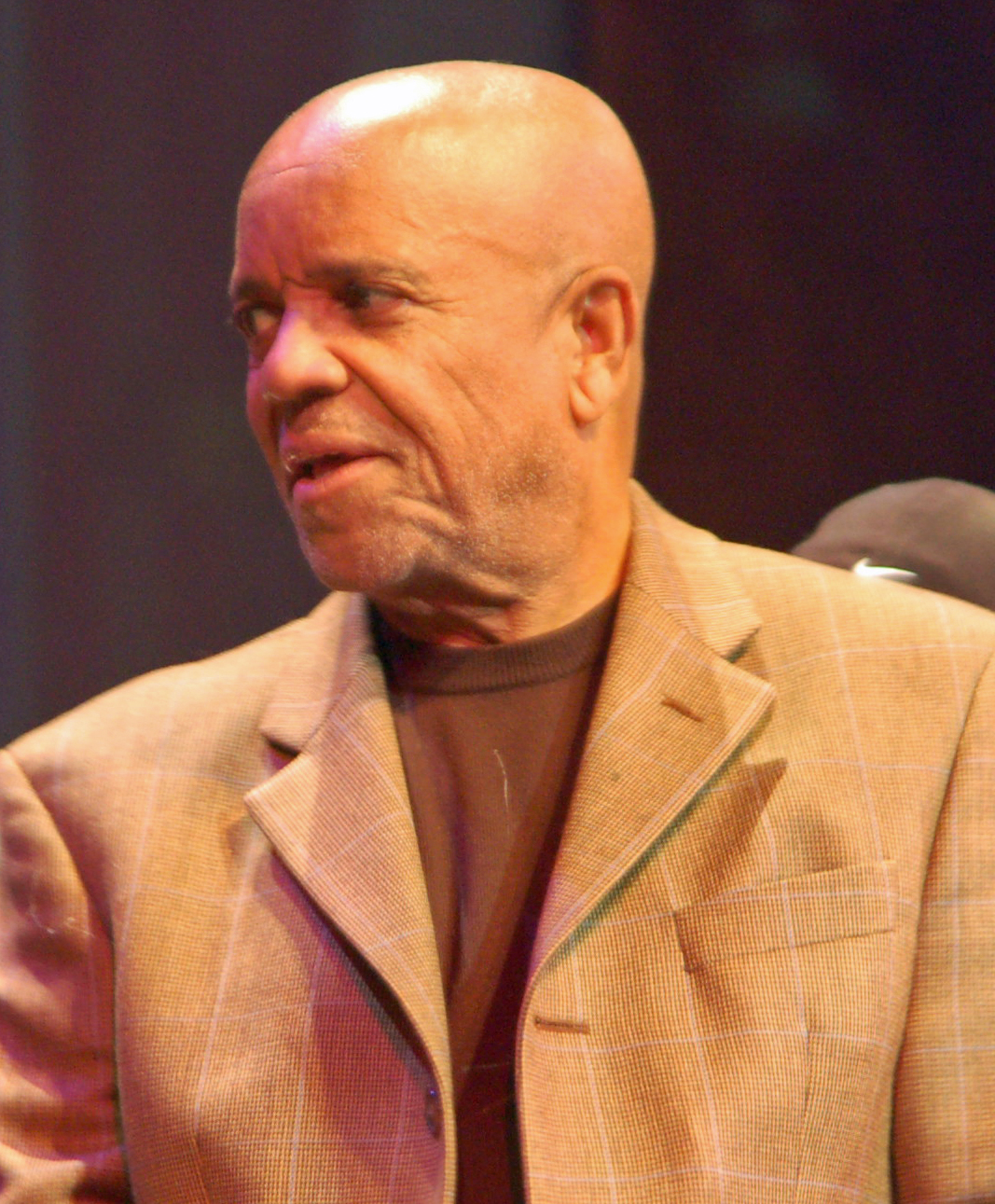 Berry Gordy at a performance of The Hot Chocolate Nutcracker in December 2010.